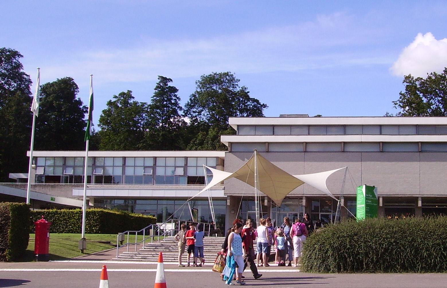 inside the Museum of Welsh Life at Cardiff in Wales